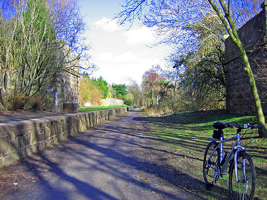 Deeside Way The old railway station for Peterculter, the remains of a dismantled road bridge can be seen on either side, the route is now a popular walk/cycle way.